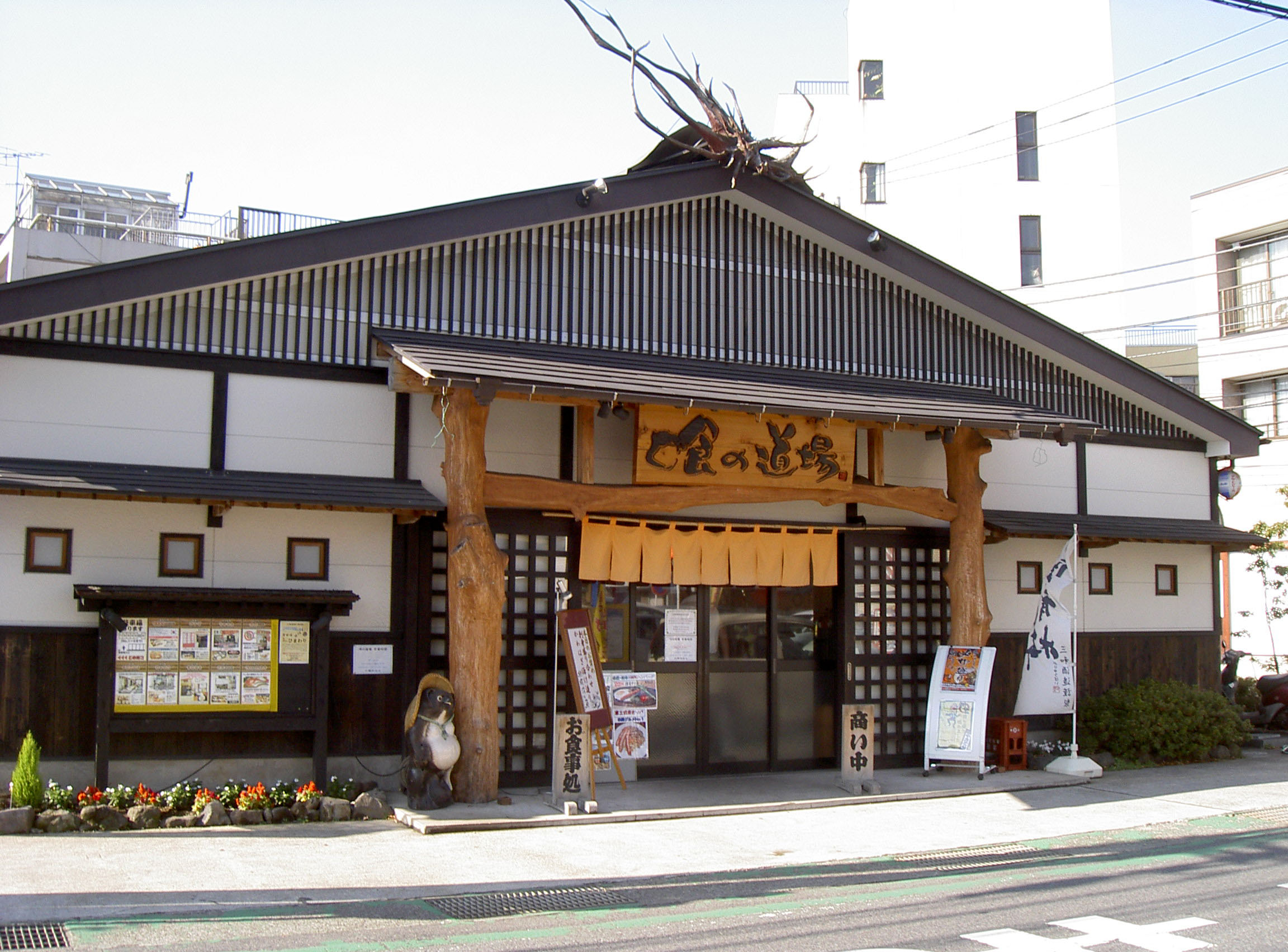 Shoku no dojo (Meaning "School of food"), a group of restaurants in Ebina, Kanagawa, Japan.